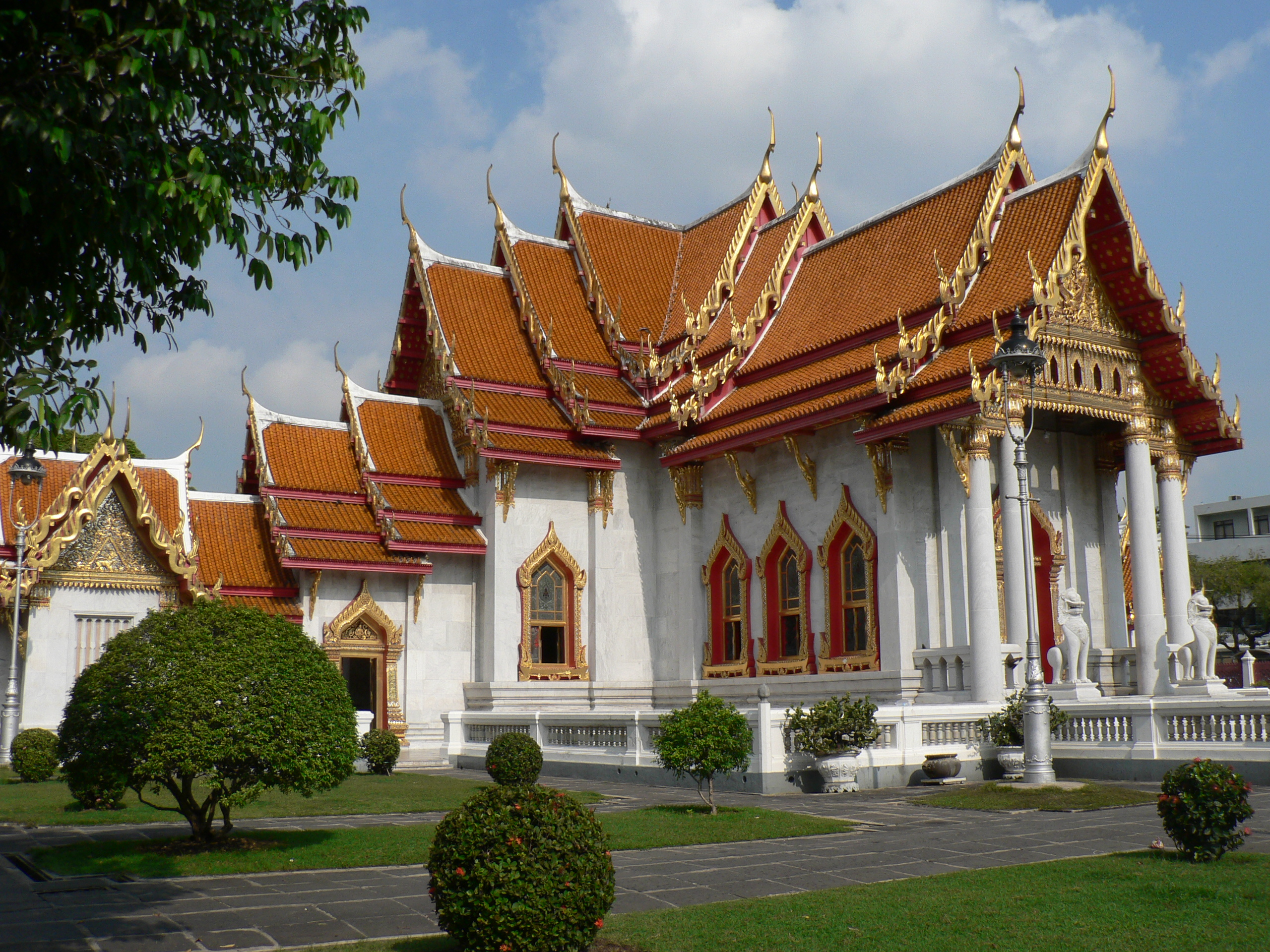 Wat Benchamabophit Dusitvanaram (simply called Wat Benchamabophit) or "The Marble Temple" as known to foreigners is most satisfactory architecturally with its symmetry and lovely proportions. The Ubosot Hall (Bot or Ordination Hall) was constructed from Carrara marble from Italy and showing distinct European neo-classical influence. It was designed by H.R.H. Prince Narisranuvattivongse, half brother to King Chulalongkorn, Rama V, and has been reckoned for its architectural and decorative arts of finest Thai craftsmanship, say, second to none in the world. Attention: Photographs for official events can be used, free of charge, as long as due credit is given to Syed atif nazir.